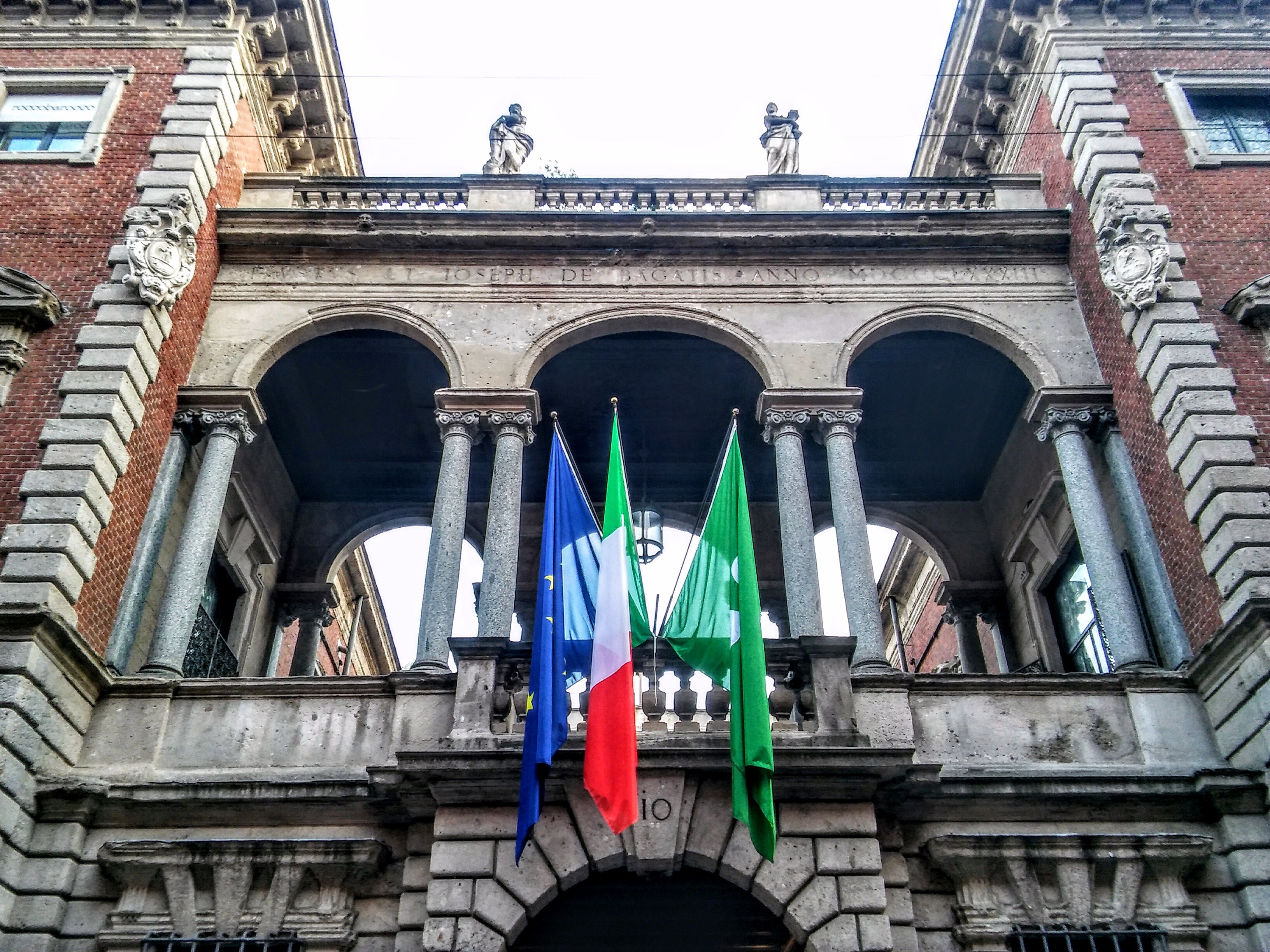 Facade of palazzo Bagatti Valsecchi on via Santo Spirito 10, Milan